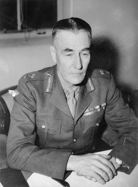 Portrait of Lieutenant General Vernon Sturdee, an Australian general of the Second World War